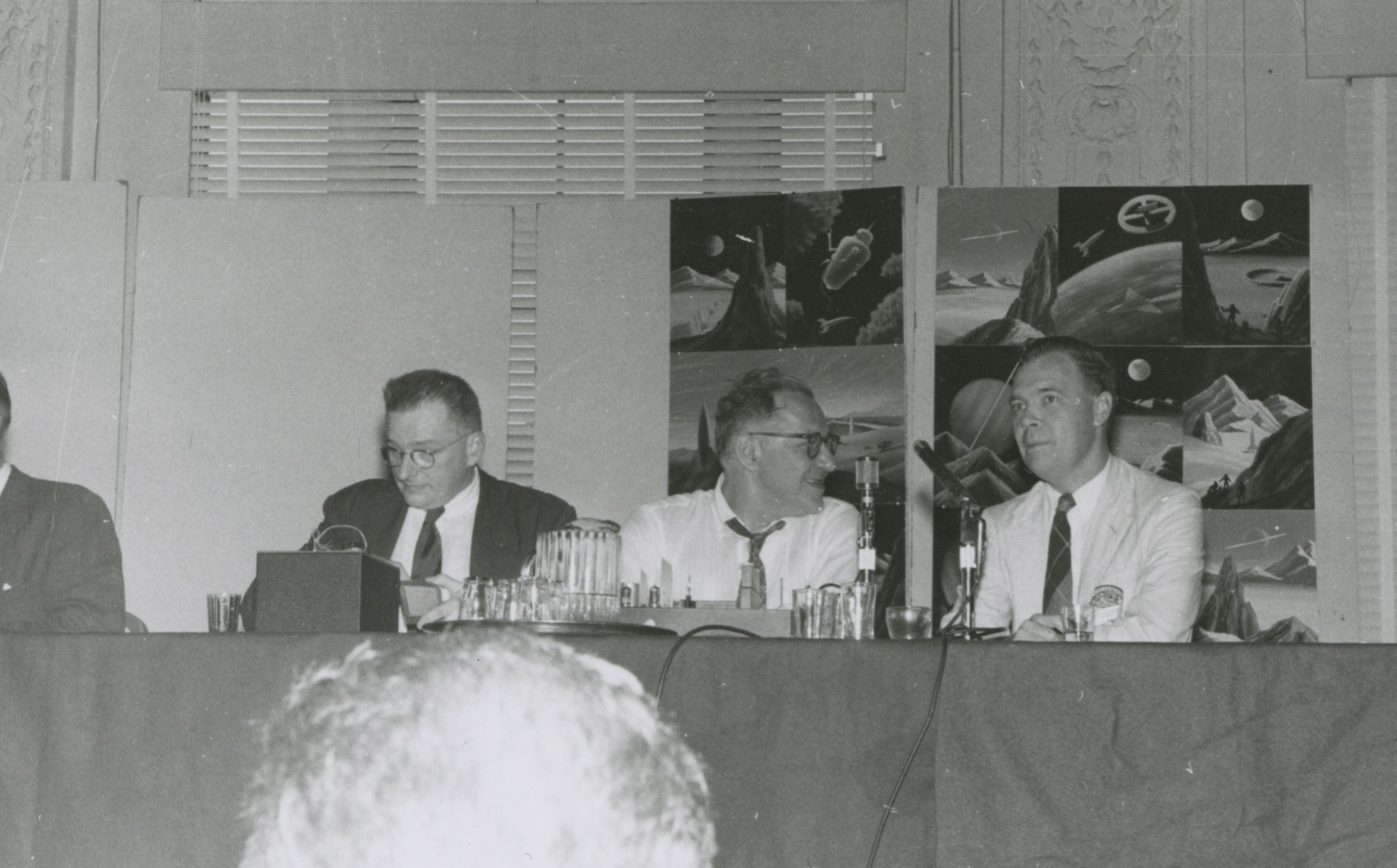 14th World Science Fiction Convention, 1956. From left to right, John W. Campbell, Willy Ley and Hal Clement.